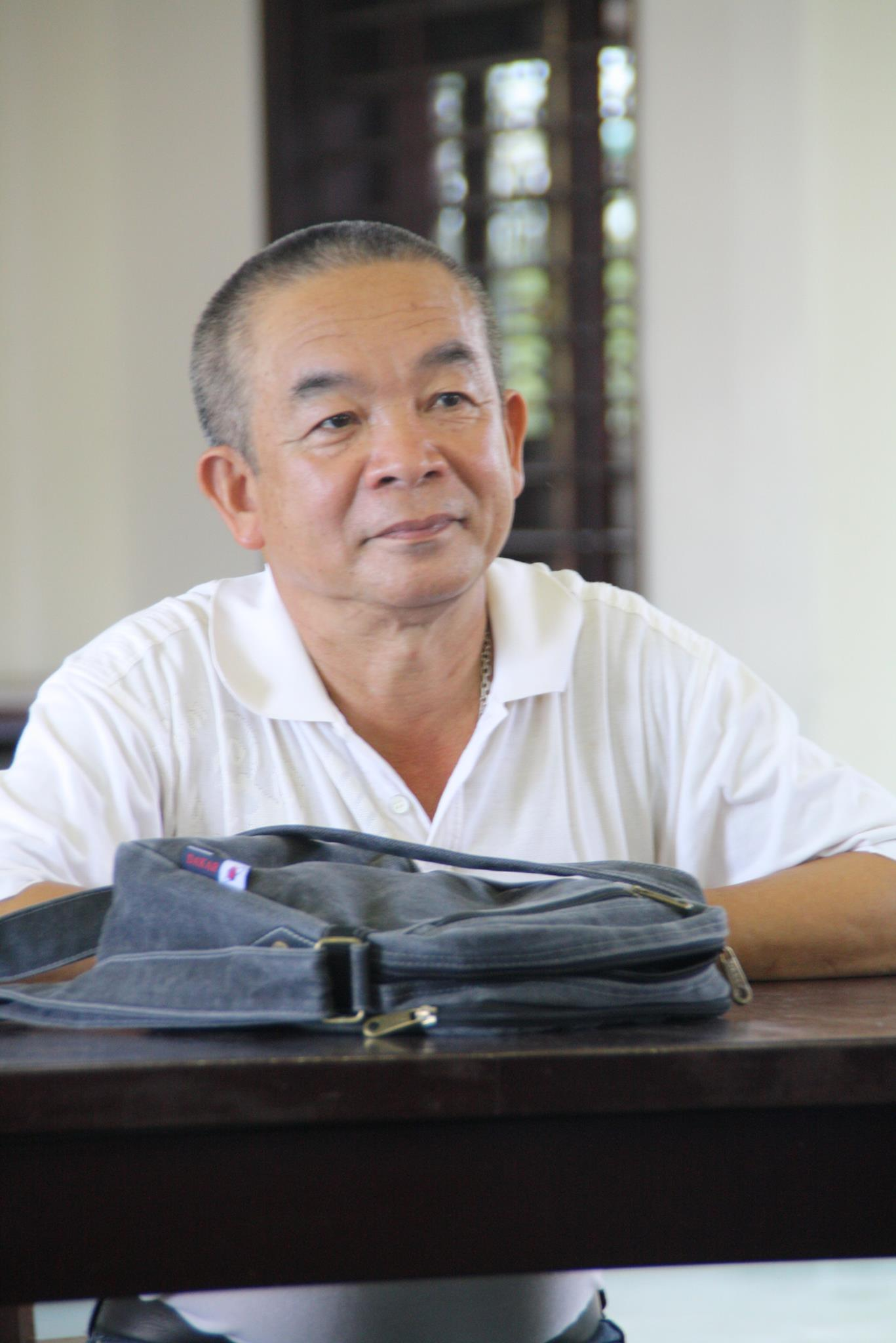 Dịch giả Phạm Nguyên Trường